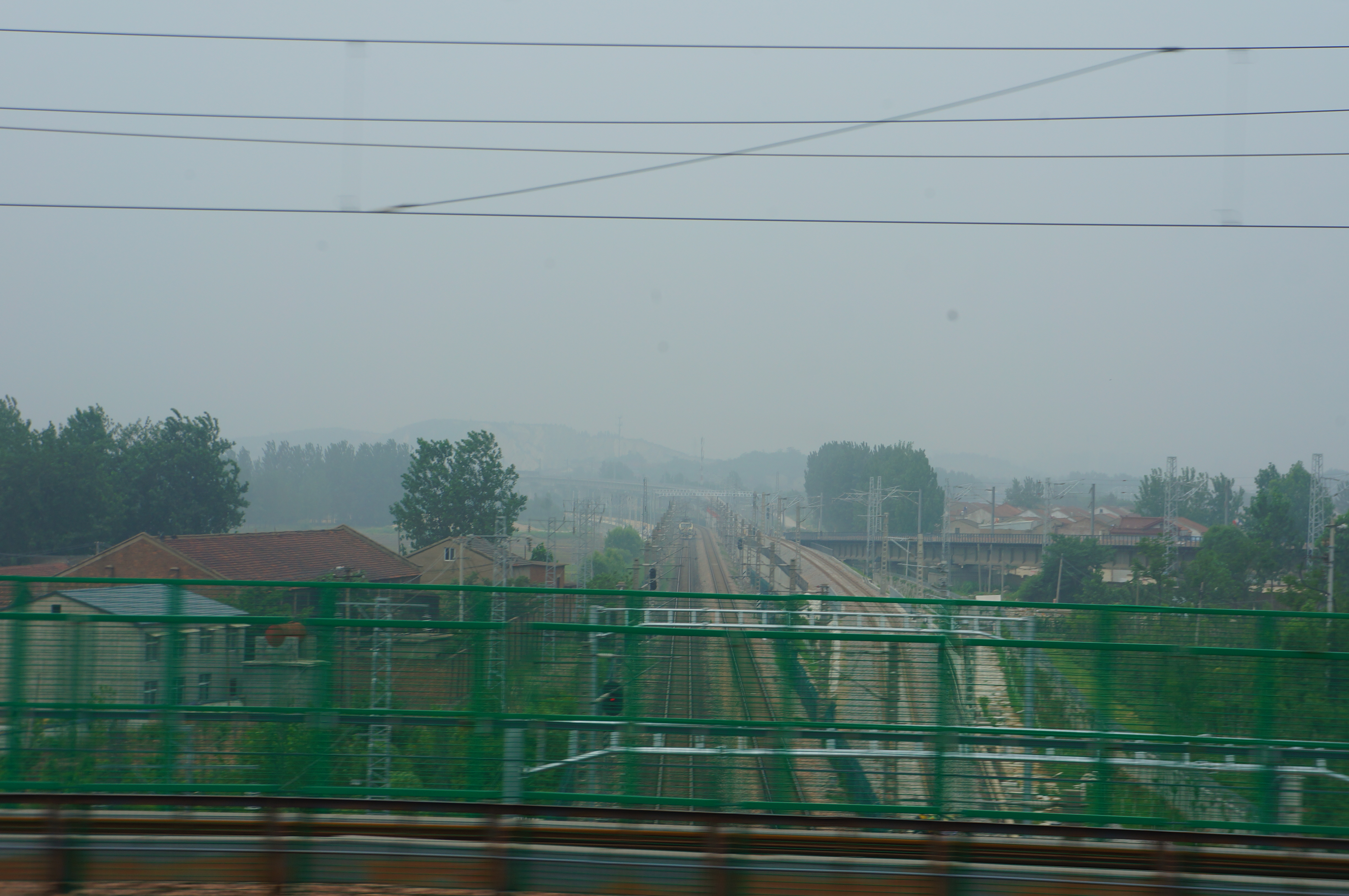 201606 Dahu Railway Station